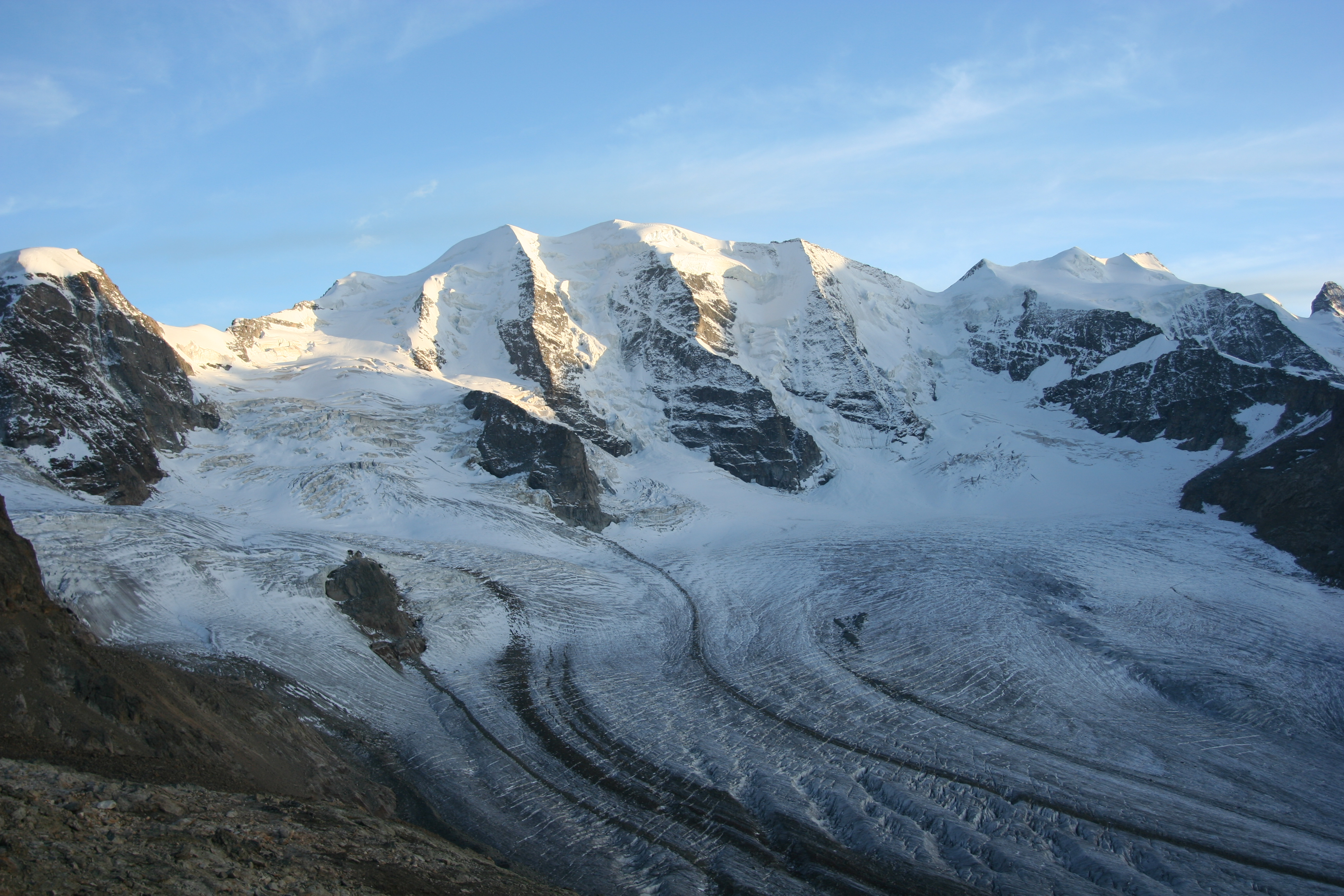 Piz Palü in Bernina Range in Central Eastern Alps view from Diavolezza, Switzerland.